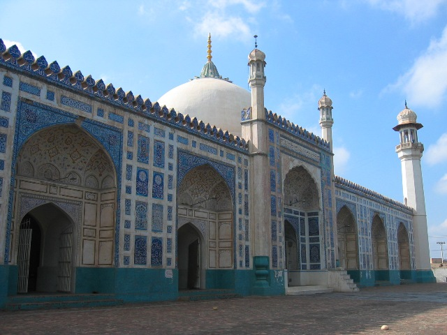 Author: Zeeshan Javeed Taken photo during a trip to Multan, Pakistan in 2005.